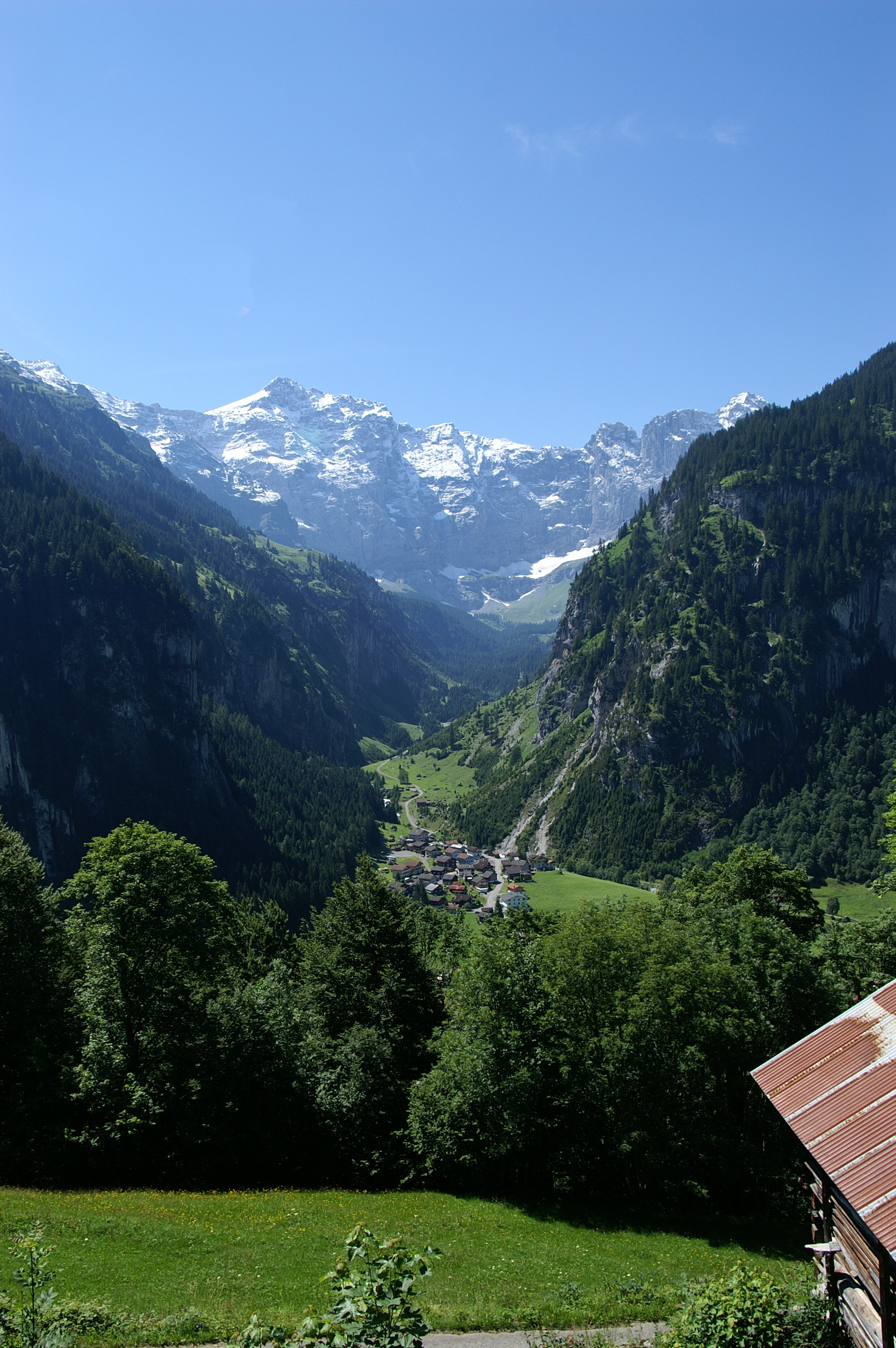 Klausen Pass (el. 1948 m.) is a high mountain pass in the Swiss Alps connecting the cantons of Uri and Glarus.